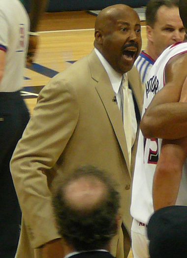 User:Chrisjnelson agreed to license this image of Royce_Ring.jpg under a free attribution license.